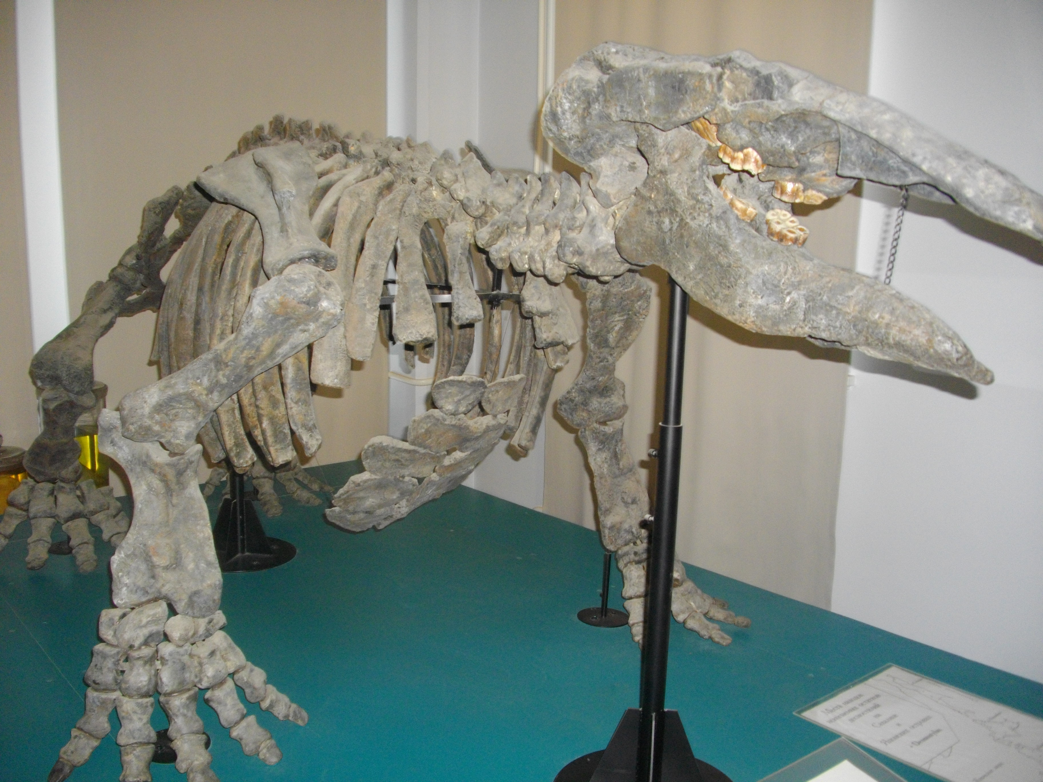 Skeleton of Desmostylus, museum of Yuzhno-Sakhalinsk